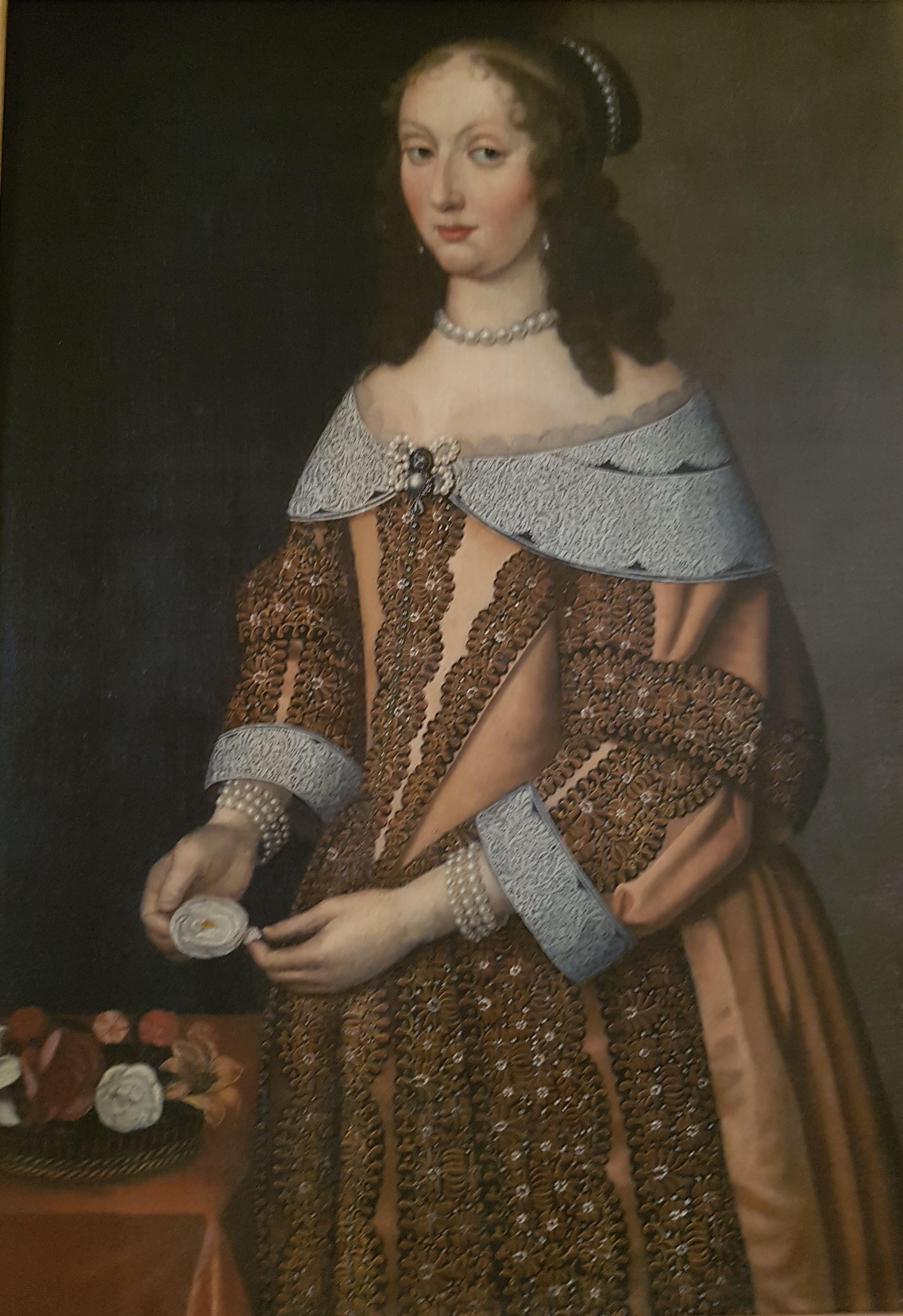 Läckö slott interior portrait of Maria Eufrosyne